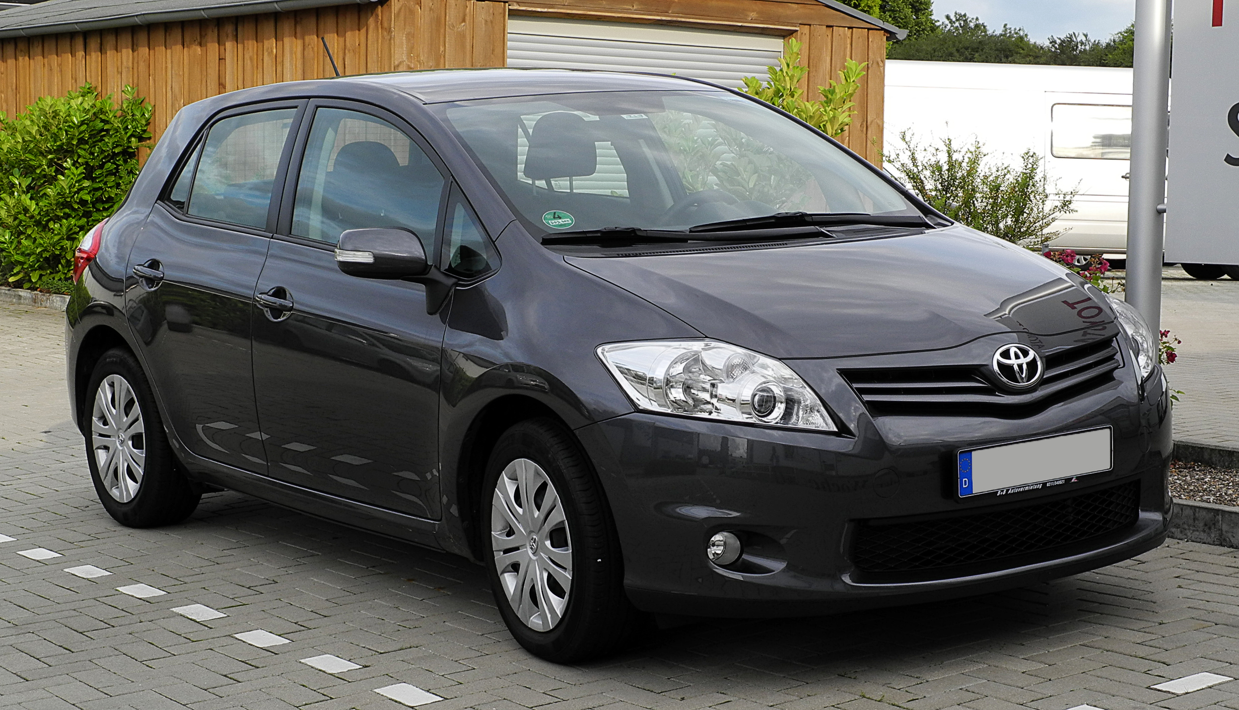 Toyota Auris (Facelift)